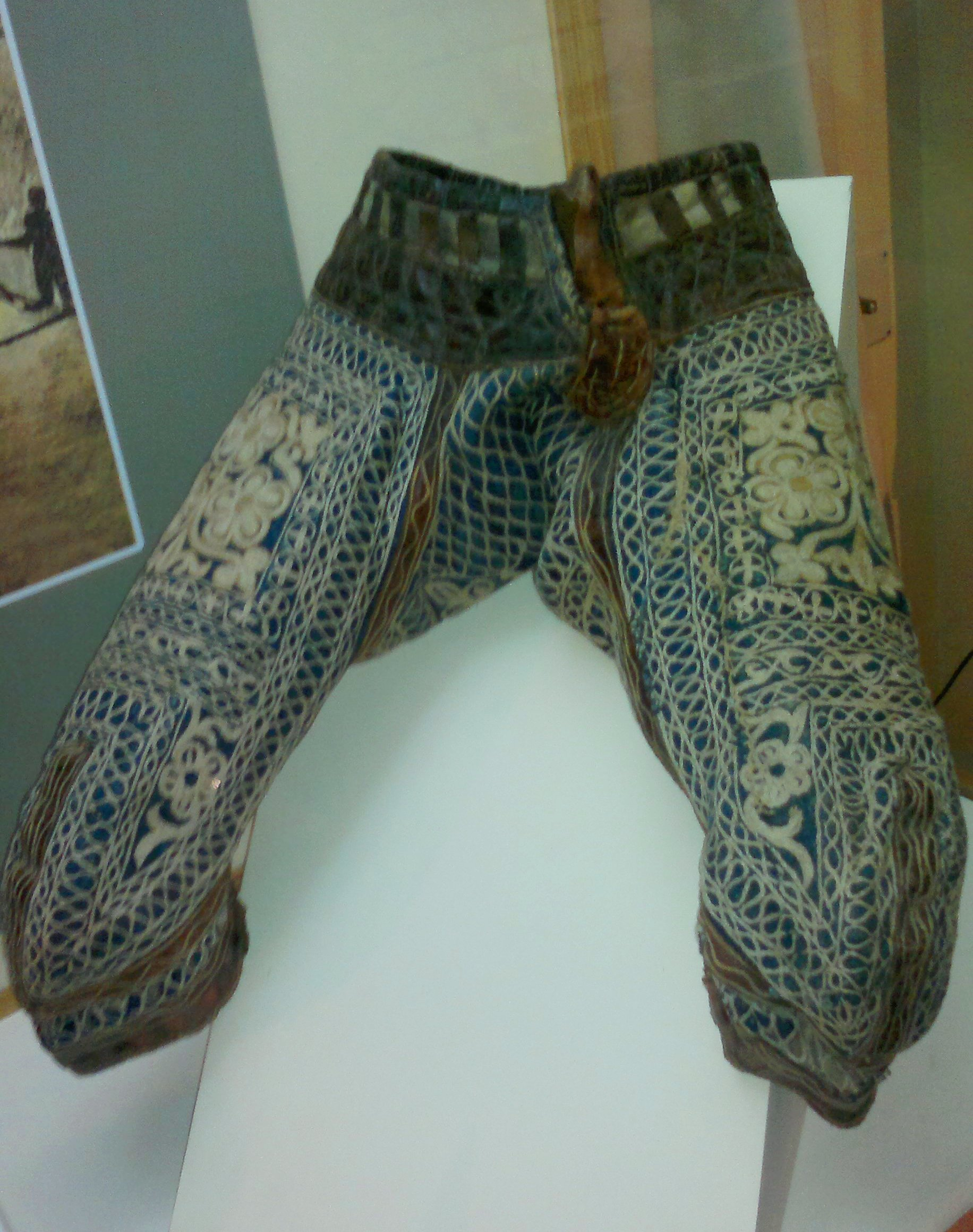 Wrestler's trousers. Middle Ages. Museum of History of Azerbaijan.